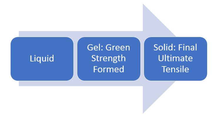 Depicts Epoxy Curing